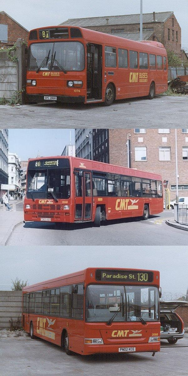 Three buses in the fleet of CMT Buses, Aintree, Liverpool. Top: SPC 286R, a Leyland National, once the mainstay of the fleet, but by the time this photo was taken, this was the only example still owned and had been relegated to ancillary duties. Centre: F303 AWW, a Leyland Lynx, of which twenty-four were purchased secondhand between 1999 and 2001 to supplement vehicles purchased new. Bottom: PN02 KCE, a Dennis Dart SPD, one of five delivered new in 2002 which were the last vehicles bought before the sale to GTL.